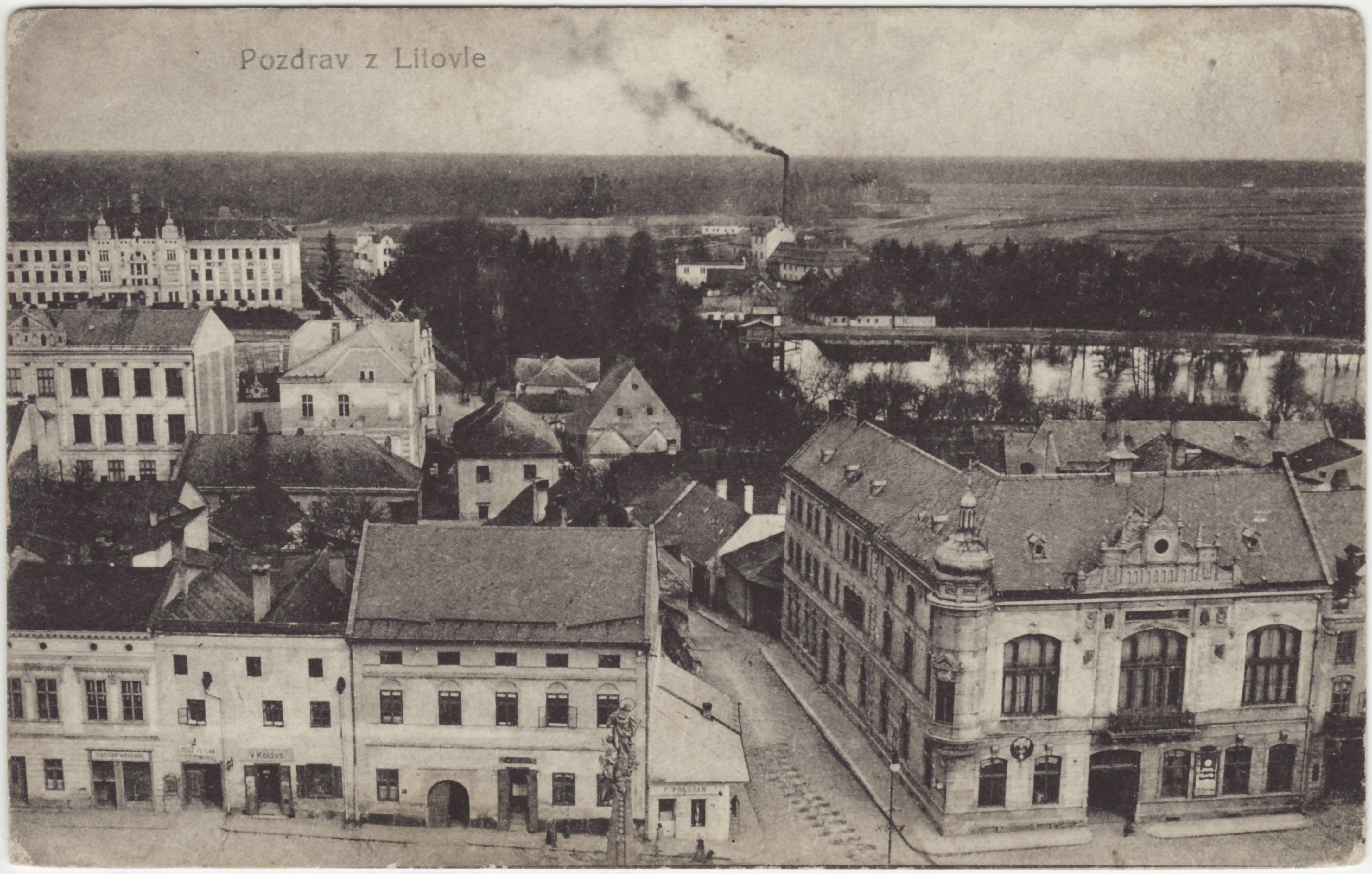 Historical postcard with the view of Litovel from the tower of the town hall to the east. Published by L. Kořínský in Litovel, 1918.